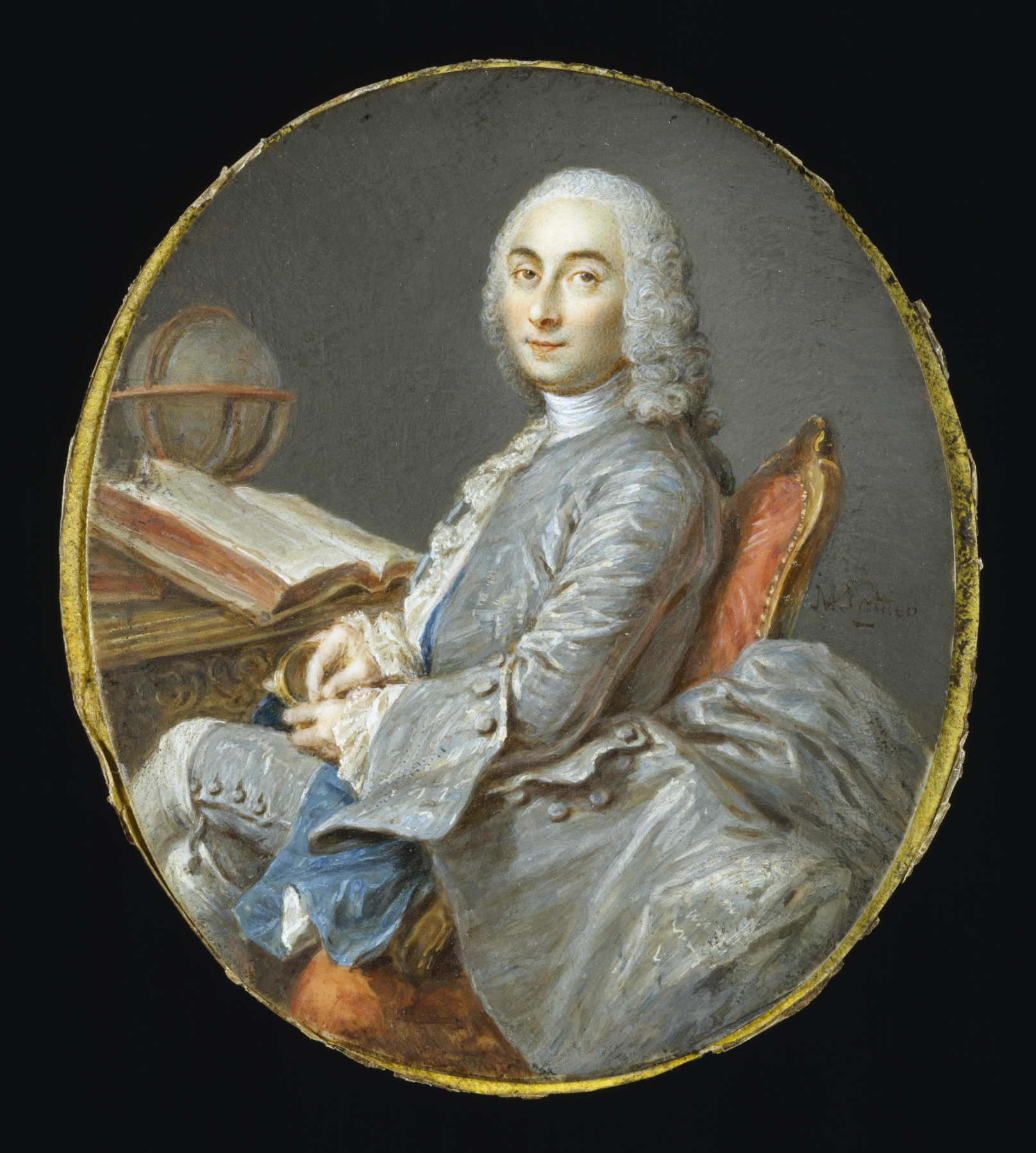 Nattier was regarded as one of the foremost portrait painters at the court of Louis XV (reigned 1715-1774). He occasionally turned to miniature painting, as demonstrated by this likeness of Cassini de Thury (1714-1784), a distinguished astronomer and director of the Paris Observatory, shown seated at his desk taking a pinch of snuff from a gold box.